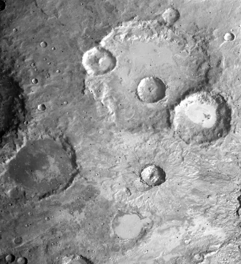 Roddenberry crater (top) on Mars. Viking 1 image from camera A (093A25). Clear filter was used for this image. Resolution is about 240 m/pixel. Approximate north is up. Emission Angle: 31.1 Incidence Angle: 81.7 Latitude: -50.5 Longitude: 356.3 Phase Angle: 81.0